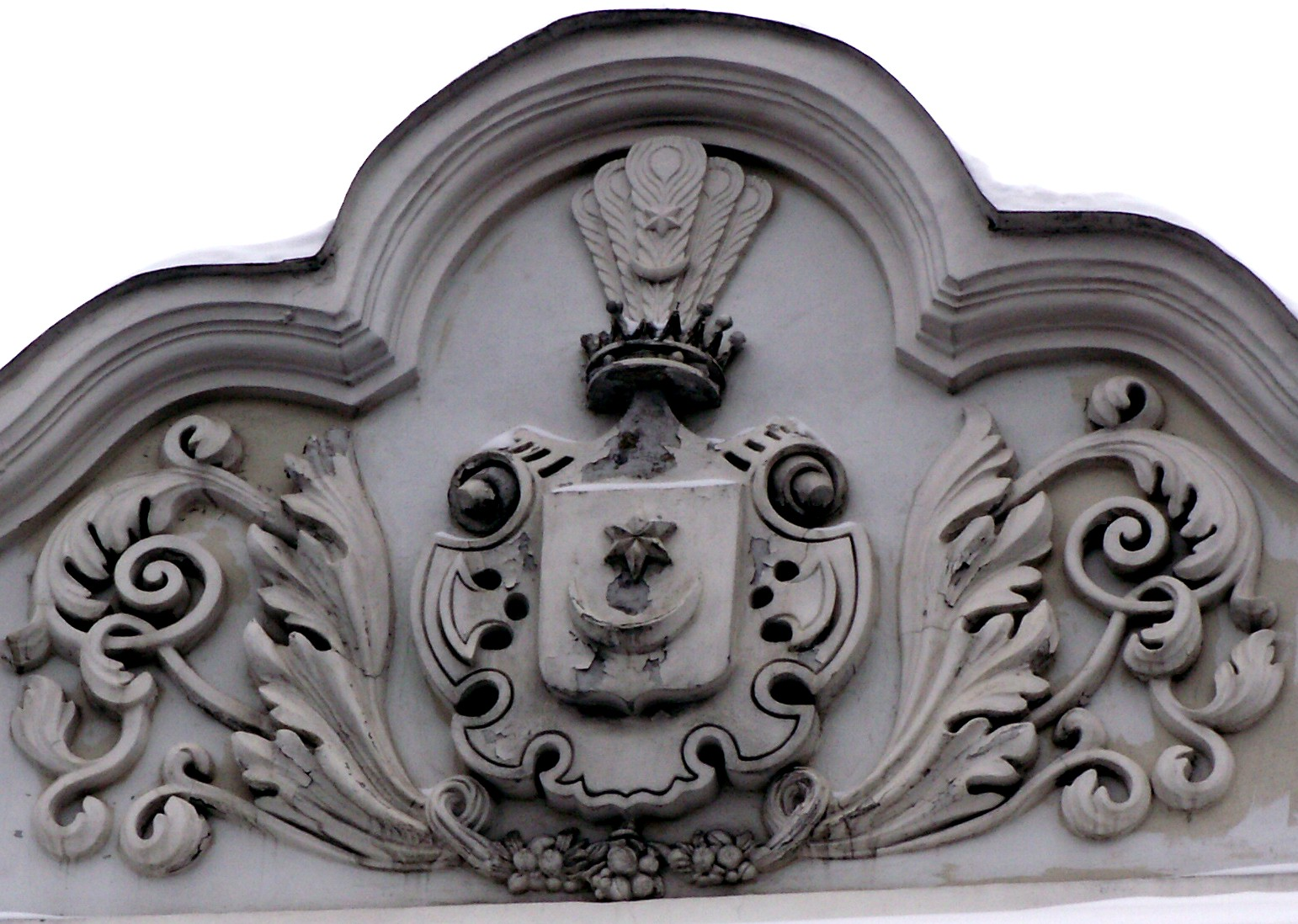 Tyszkiewicz Palace in Vilnius, Lithuania